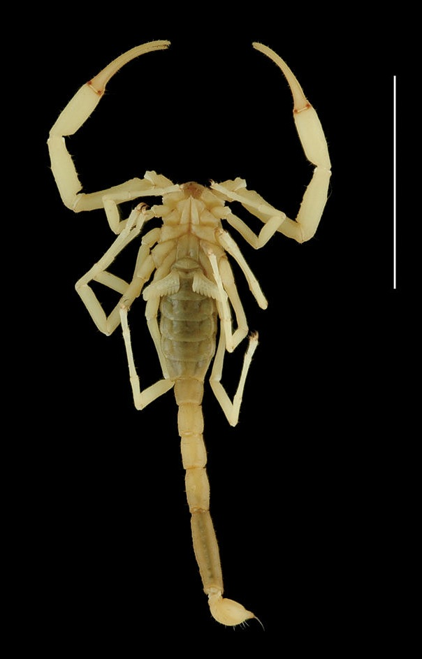 Vietbocap canhi female paratype, dorsal aspect. Scale bar = 10 mm.